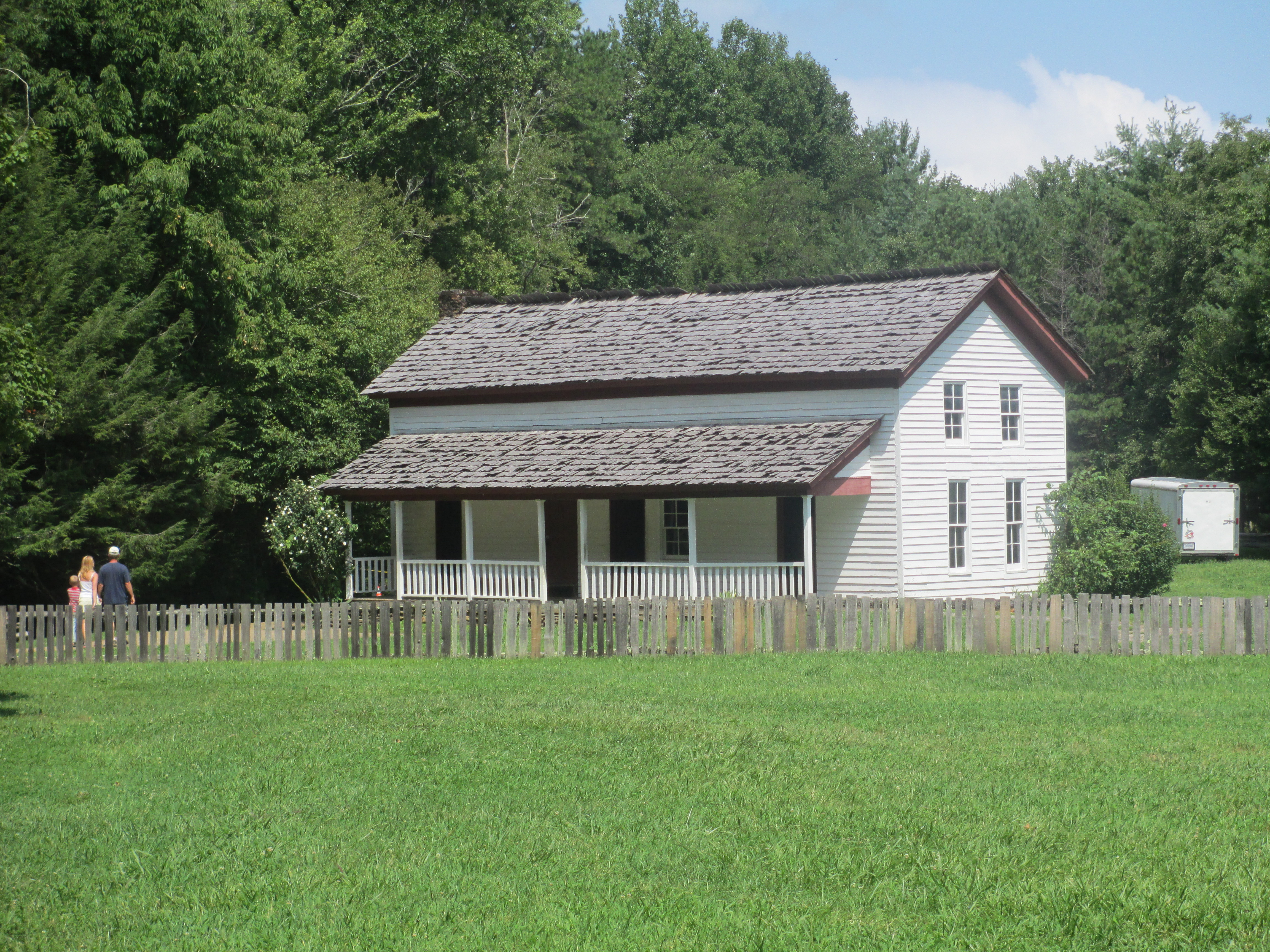 I took photo with Canon camera of Becky Cable House at Cades Cove, Great Smoky Mountains National Park.